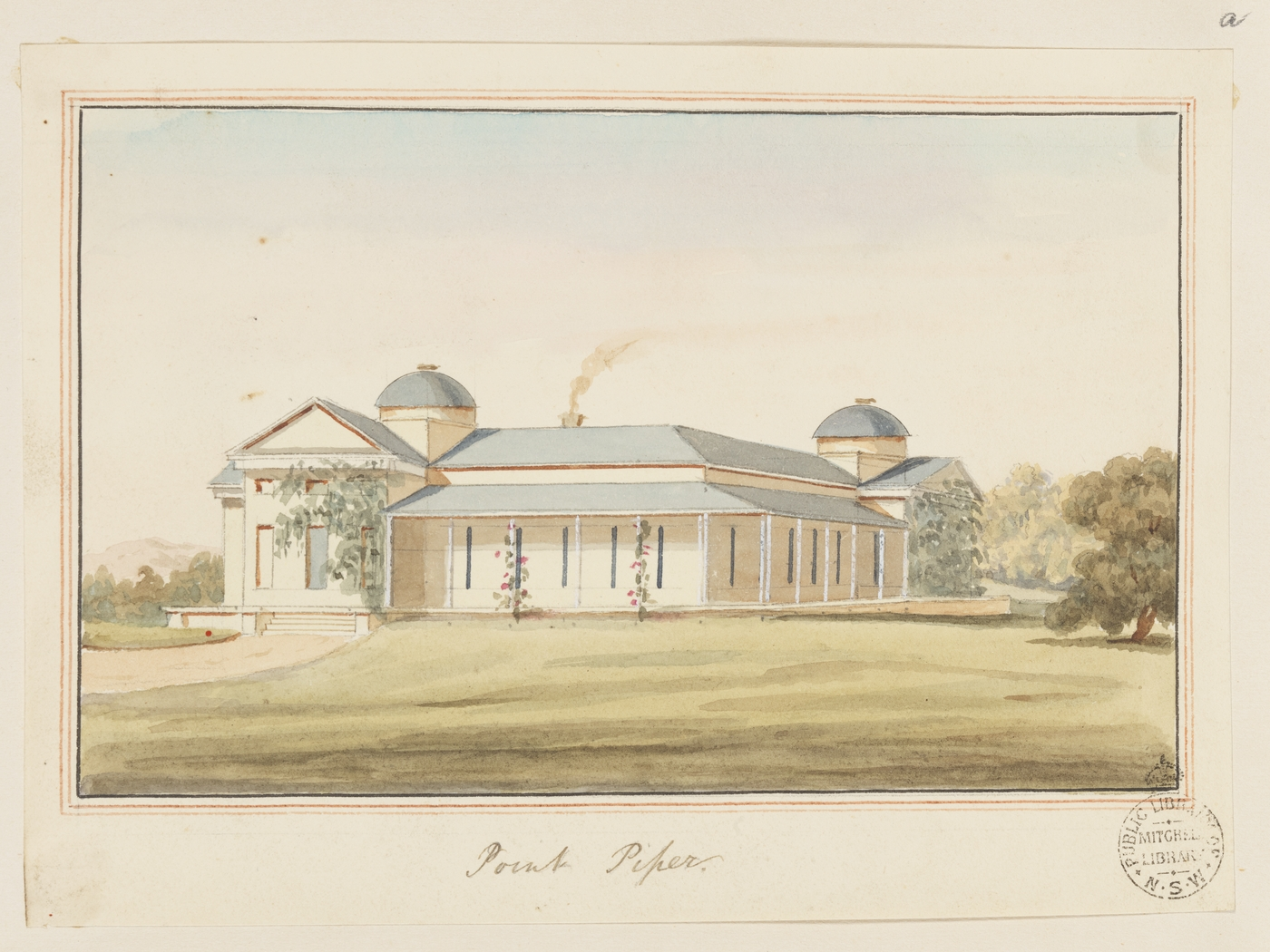 Painting by Frederick Garling of Point Piper House, Sydney, NSW, 1840s